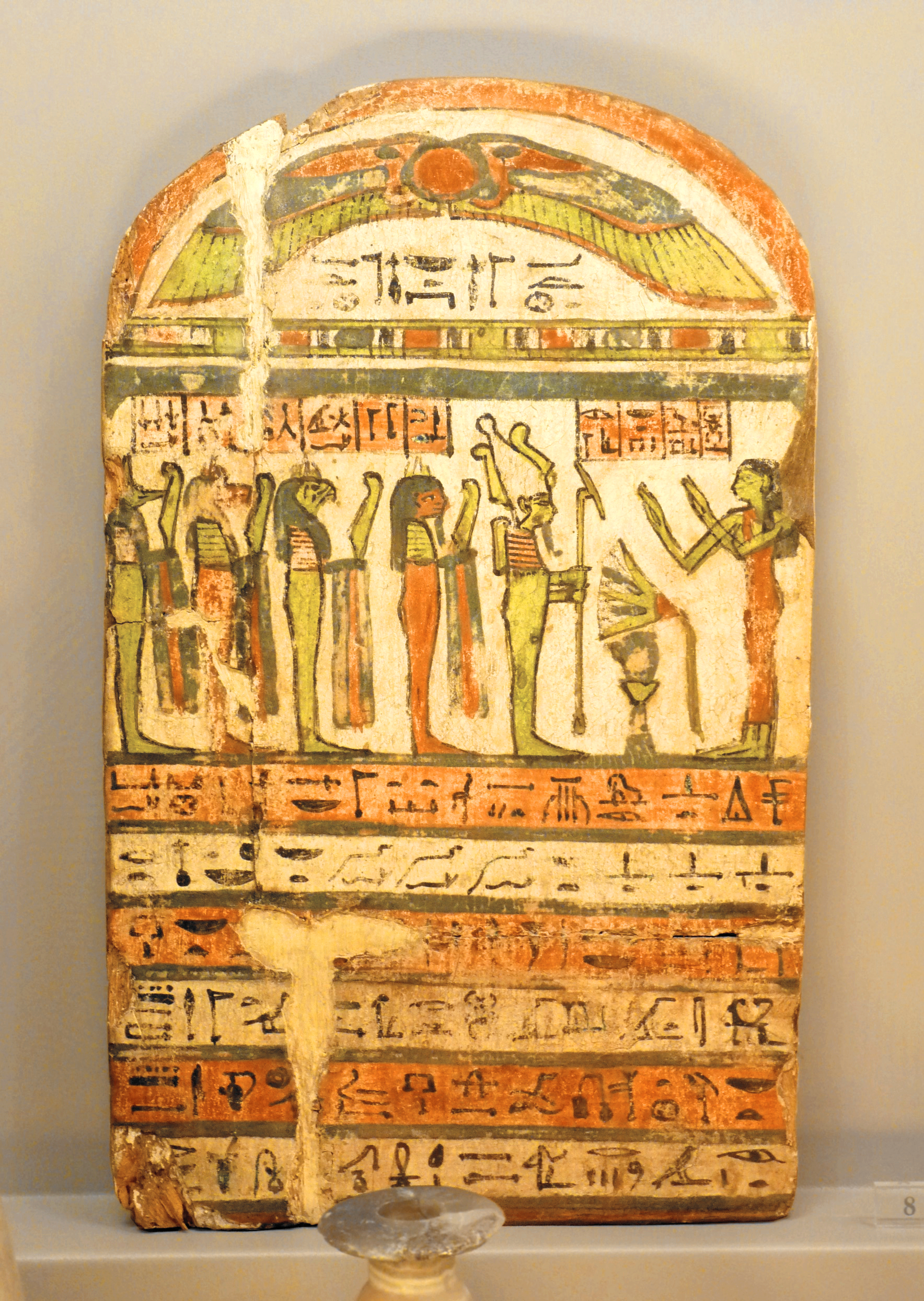 Stele for the Lady of the house Tashakheper, daughter of the priest of Montu, Irethoreru. The deceased woman (right) is depicted in prayer in front of Osiris and the Four Sons of Horus. Her father Irethoreru is known to have signed, as a witness, an oracle of Amun which was written on a papyrus. Stuccoed and painted wood (cm 38 x 23), from Thebes, reign of Psamtik I, 26th dynasty, Late period. Archeological Museum of Bologna (Italy), Palagi (Nizzoli) coll., EG 1949.